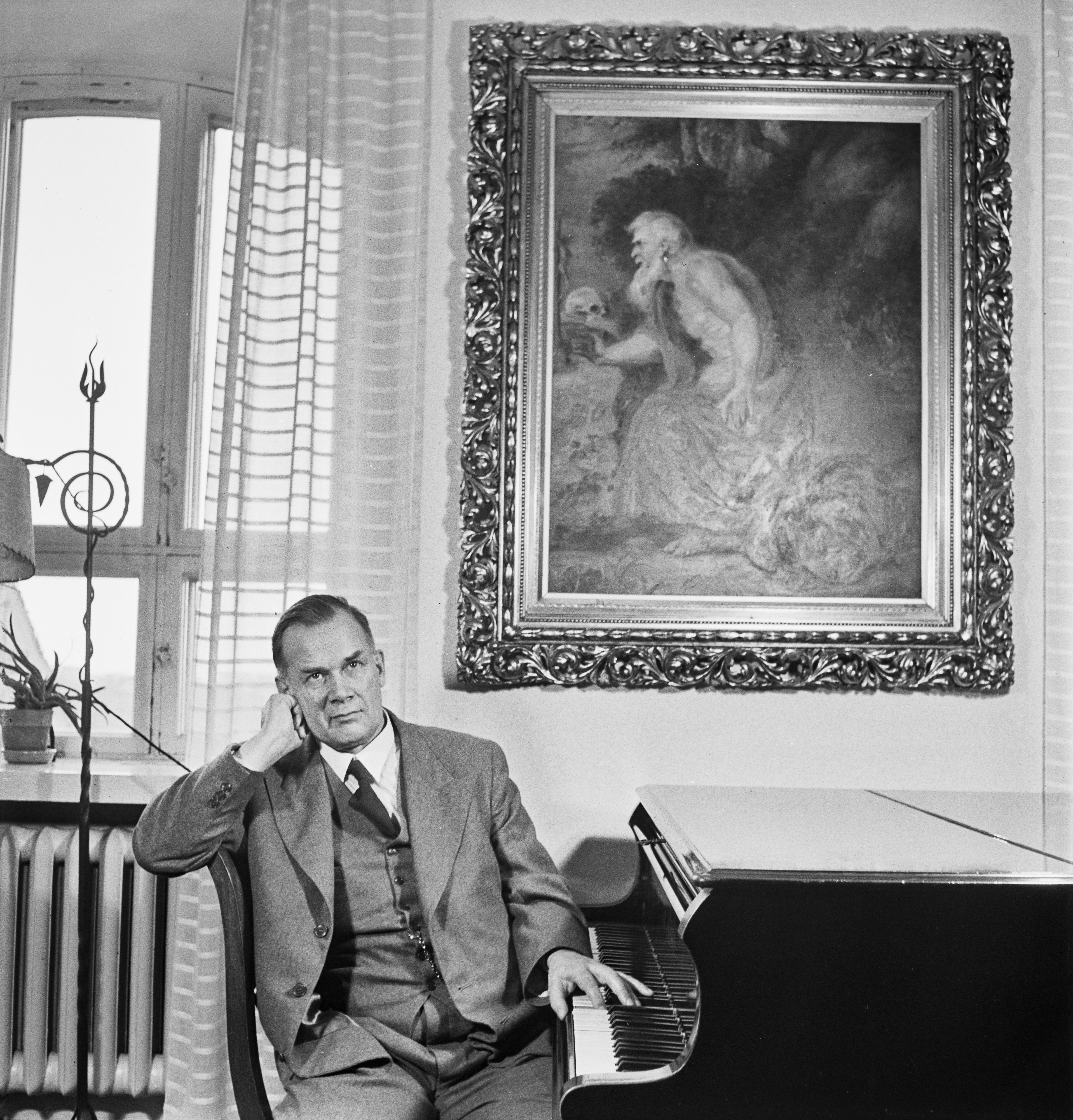 Photograph of the Finnish theologian and professor Aarni Voipio (1891–1965).